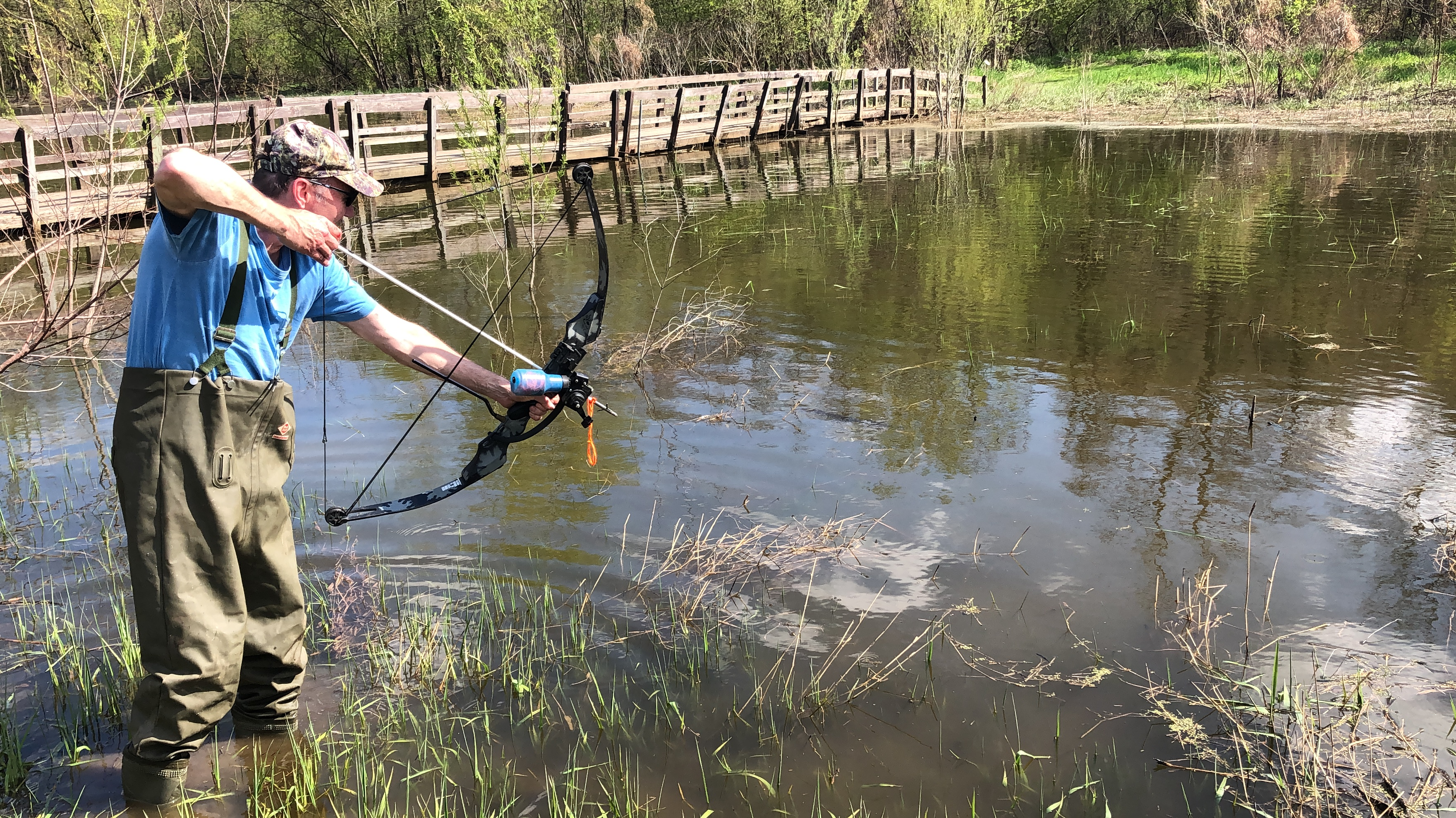 modern bow fisher